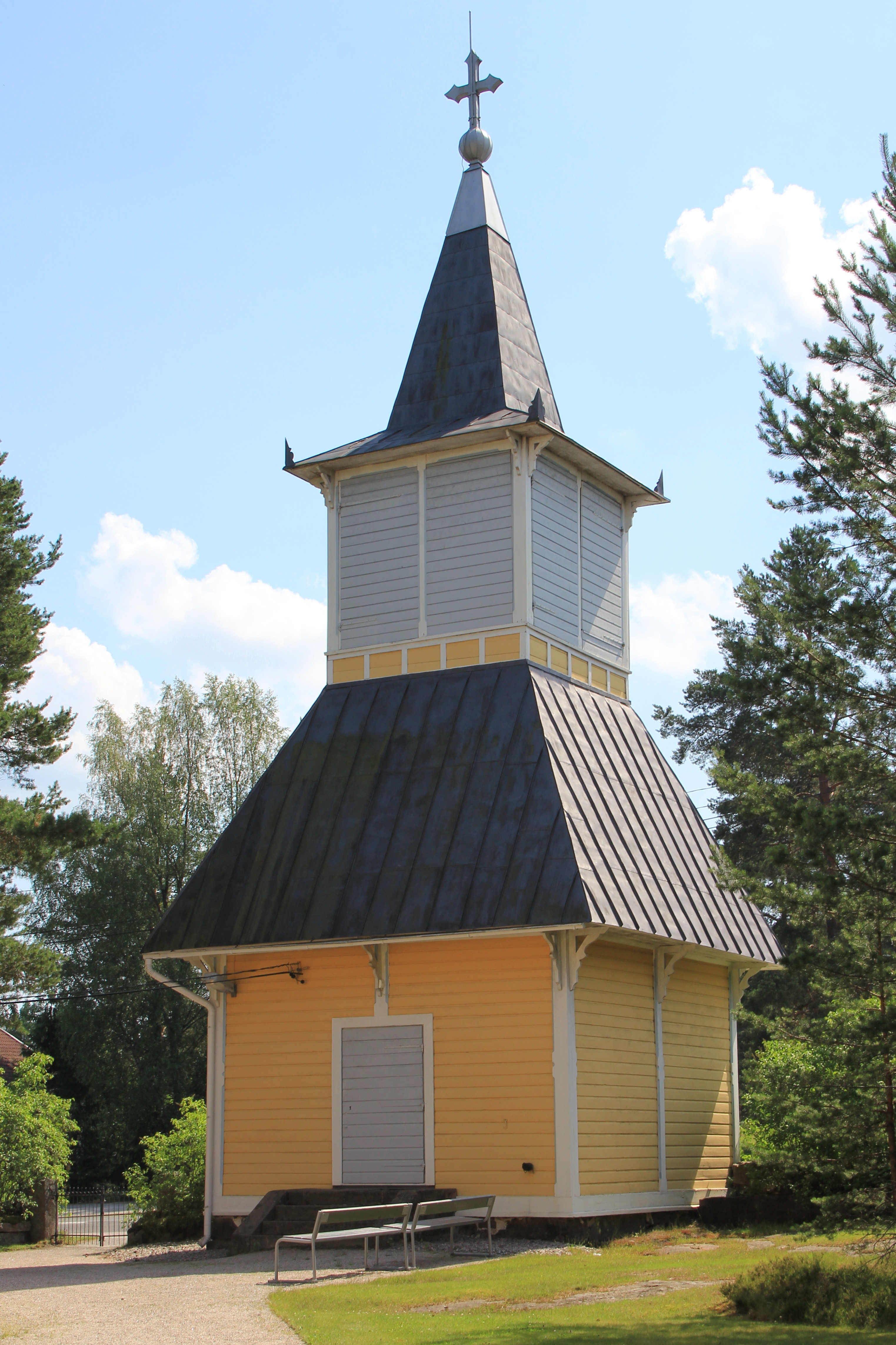 Kuusjoki church belltower, Kuusjoki, Salo, Finland. - Completed in 1882.